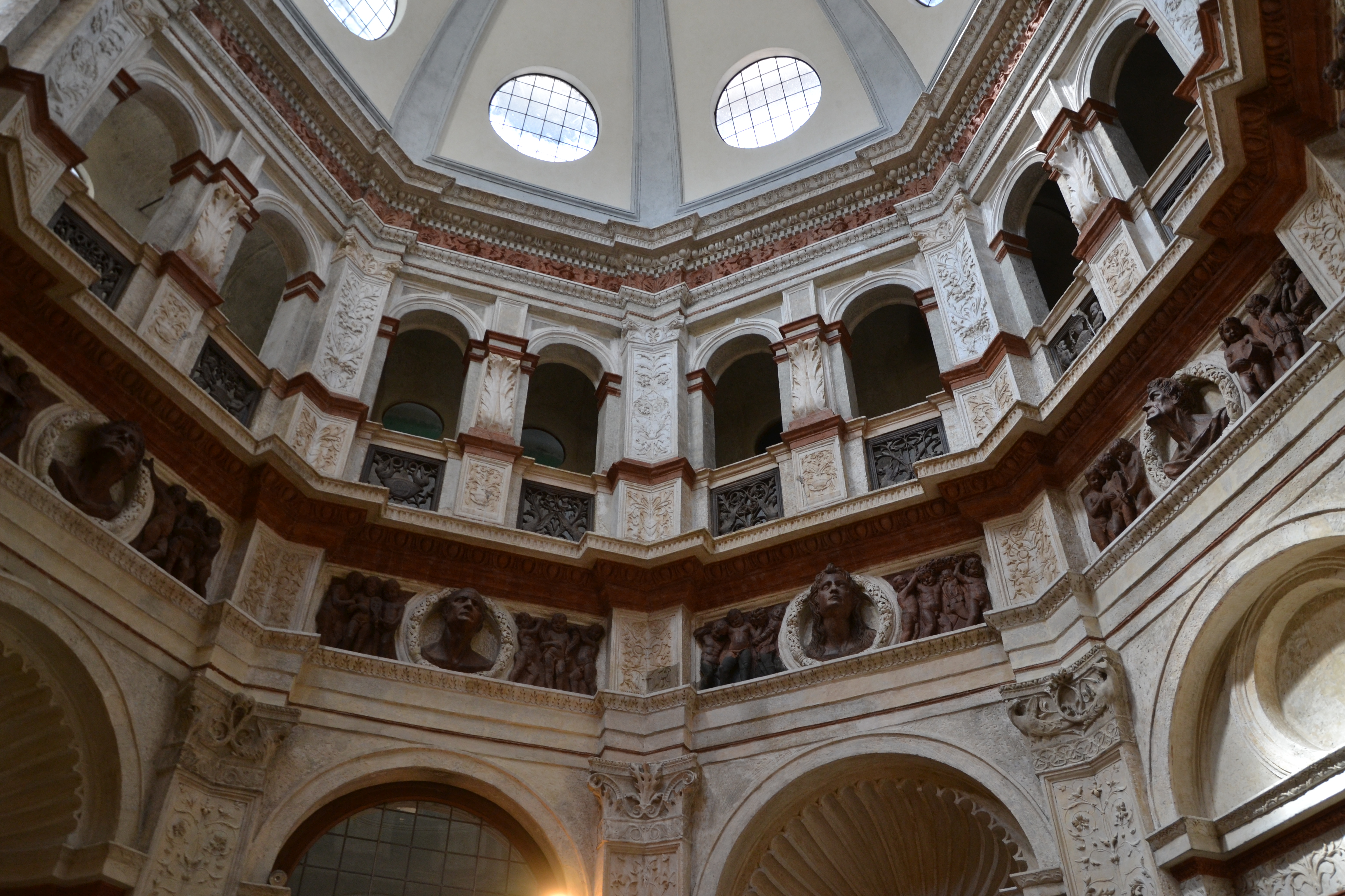 Santa Maria presso San Satiro (Milan) - Baptistry by Donato Bramante - clay sculptures by Agostino de' Fondulis